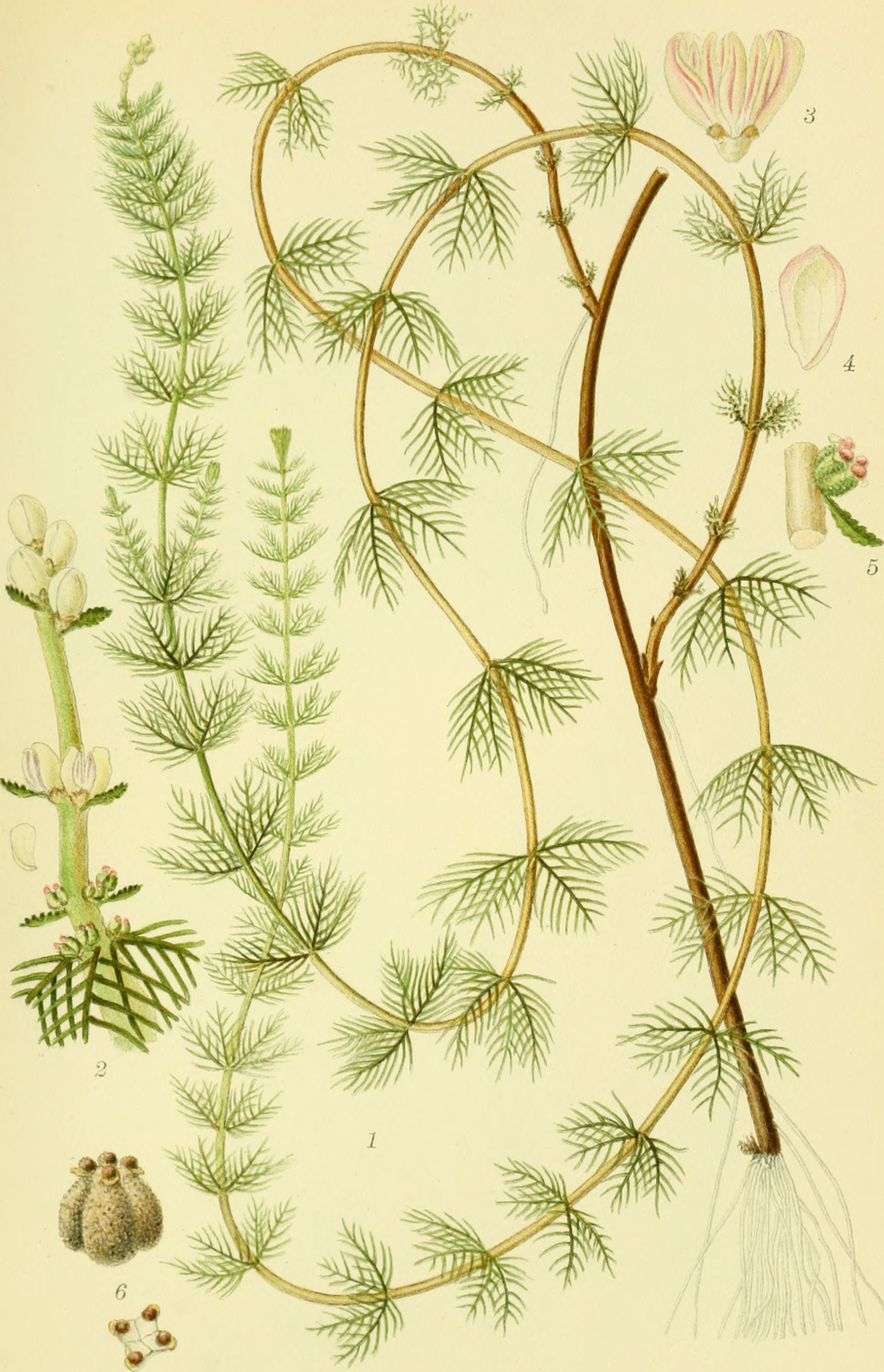 Title: Billeder af nordens flora Year: 1917 (1910s) Authors: Mentz, August, 1867-1944; Ostenfeld, C. H. (Carl Hansen), 1873-1931 Subjects: Plants; Plants; Plants Publisher: København, G. E. C. Gad's forlag Text Appearing Before Image: 628 Text Appearing After Image: HAAR-TUSINDBLAD, myriophyllum alterniflorum